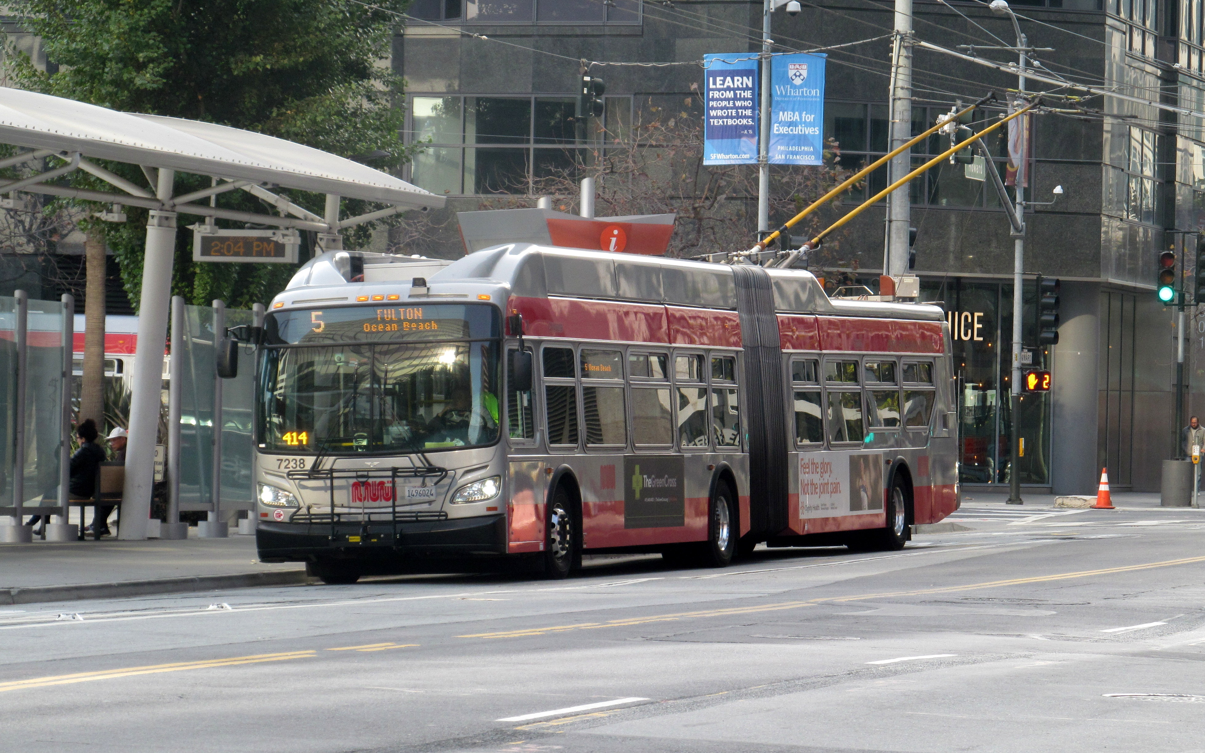 Muni 5-Fulton trolleybus at the Temporary Transbay Terminal in December 2017